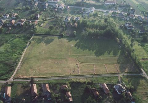 Bodroghalom, Hungary, aerial photography